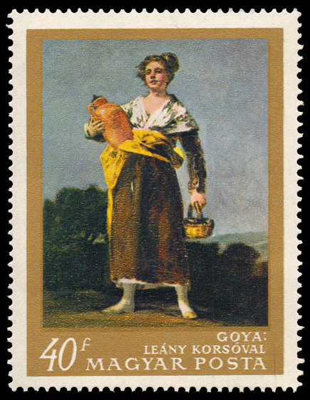 Paintings - Girl with Pitcher Denomination: 40 Filler